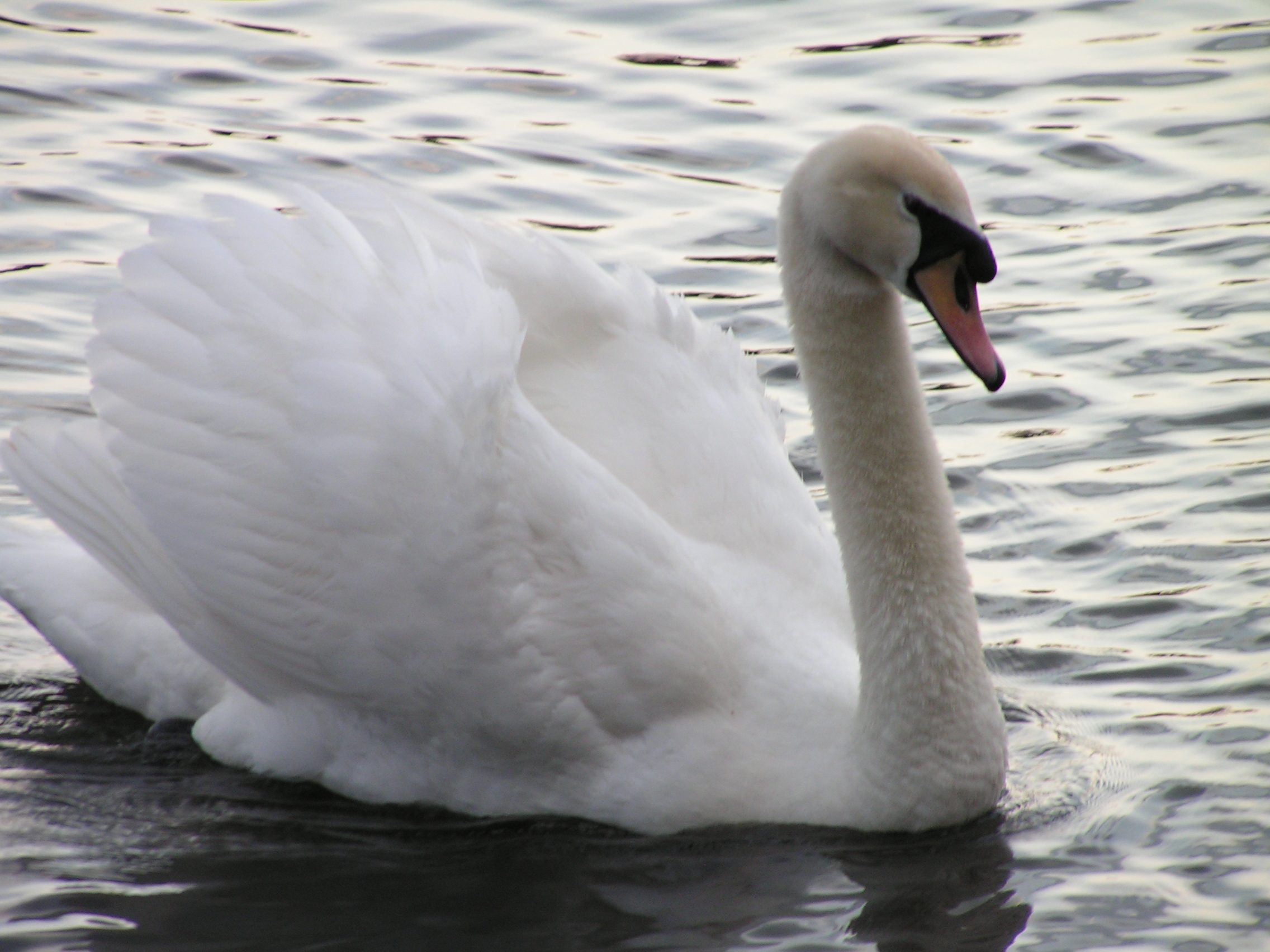 A Mute Swan (Cygnus olor).